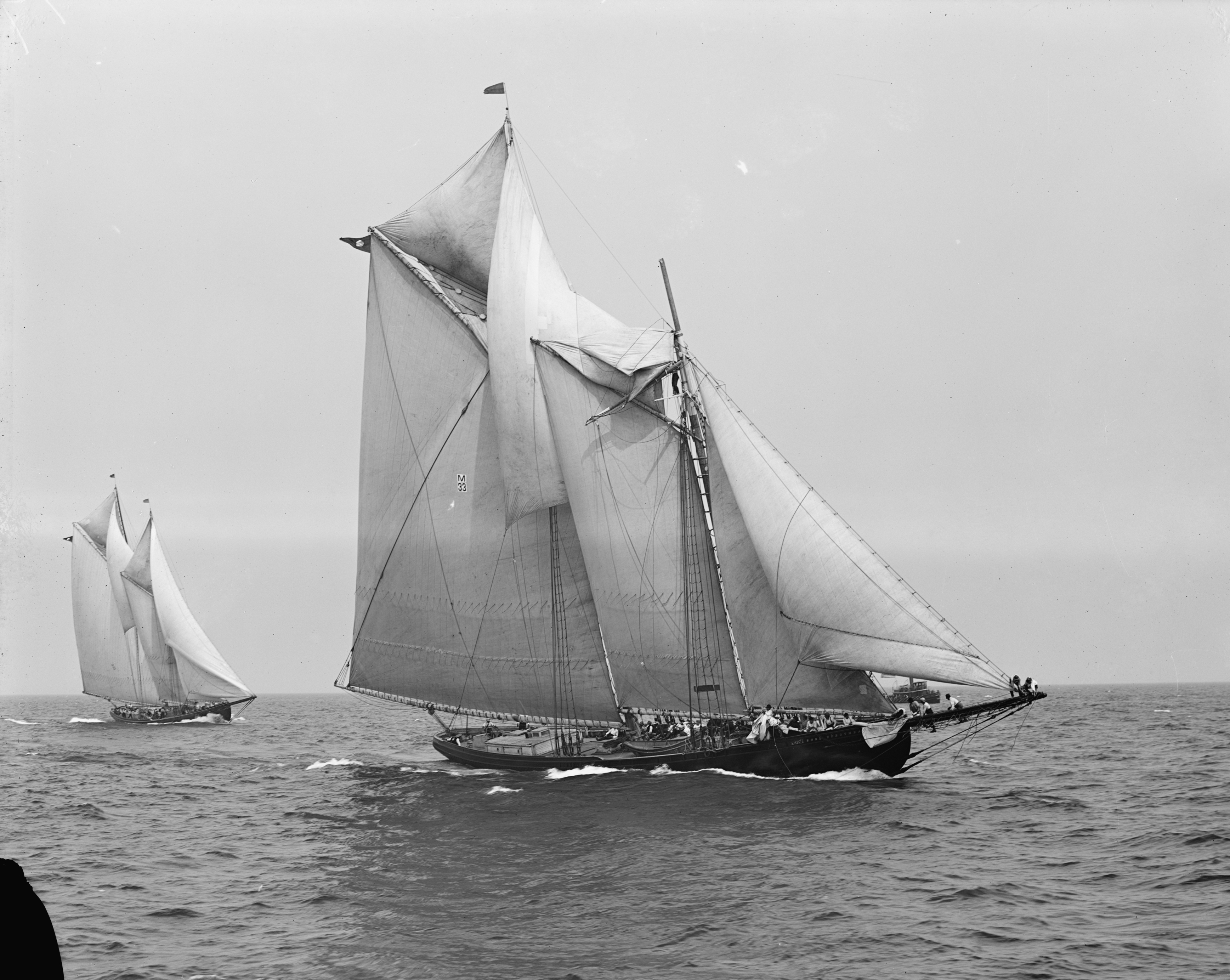 The Rose Dorothea was one of the famous "Indian Head" schooners designed by Thomas McManus and built at the Tarr & James Shipyard in Essex, MA in 1905. She was 108.7 feet (33.1 m) long, weighed 108 tons, with a gross register tonnage of 147 tons, and a crew of 26 men. As a part of Boston's "Old Home Week" celebration in August 1907, a cup was offered by Sir Thomas Lipton for a 42-mile Fishermen’s Race in Massachusetts Bay from Provincetown to Gloucester to Boston. Despite losing her foretopmast in the final leg of the race, the Rose Dorothea, with her crew from Provincetown, won the race by 2 1/2 minutes, beating the schooner Jesse Costa. She was was sold in 1916 to a Newfoundland company (W. Campbell & J. J. McKay, St. John’s, Newfoundland), which used her to ferry salt, codfish and other supplies to Portugal. On 16 February 1917, the German U-Boat submarine SM U-21 surfaced next to the schooner as it approached Portugal, approximately 15 nautical miles (28 km) off Cabo de Santa María (36°50′N 8°25′W / 36.833°N 8.417°W). After allowing her crew to evacuate into lifeboats, the U-Boat sank her.[1][2]